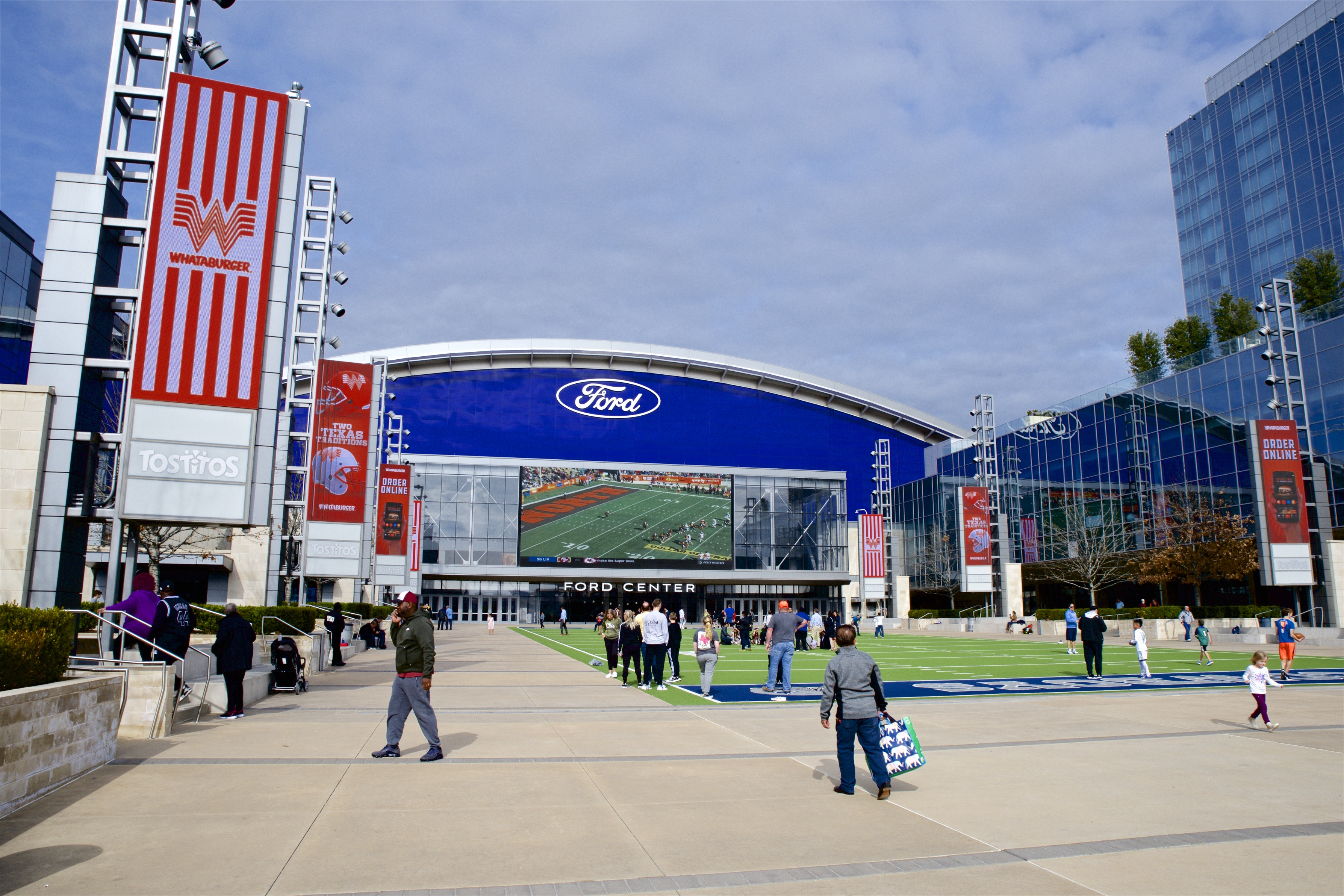 Tostitos Championship Plaza, an open air plaza in front of Ford Center at the Star, located in Frisco, Texas, in January 2020. To the far right is the Omni Hotel attached to the Ford Center.